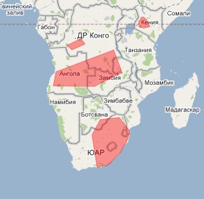 Euplectes progne (Long-tailed Widowbird) habitat (rus)